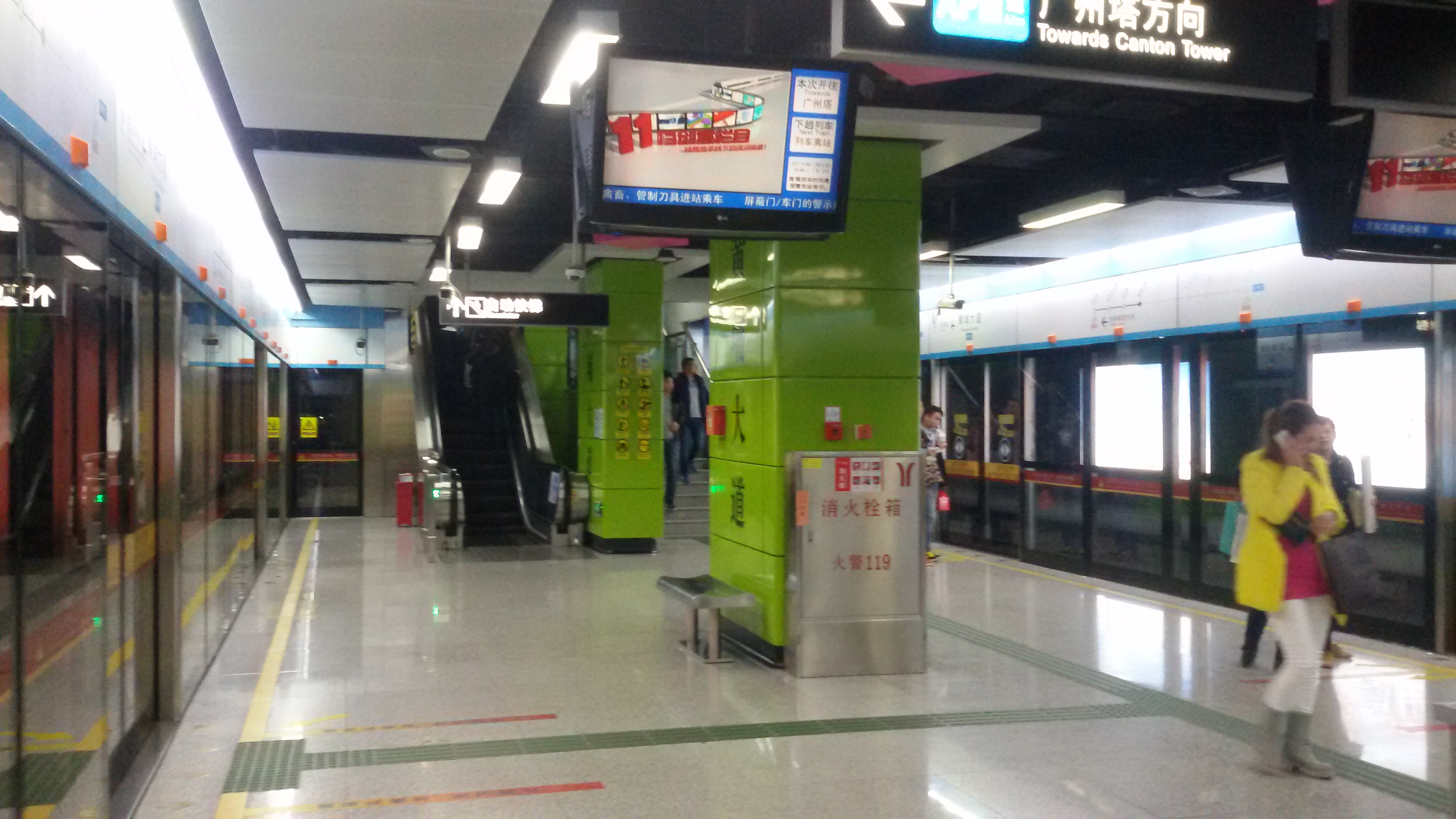 Station Platform for Huangpu Dadao Station in Guangzhou Metro. 粵語: 廣州地鐵，黃埔大道站嘅月台。